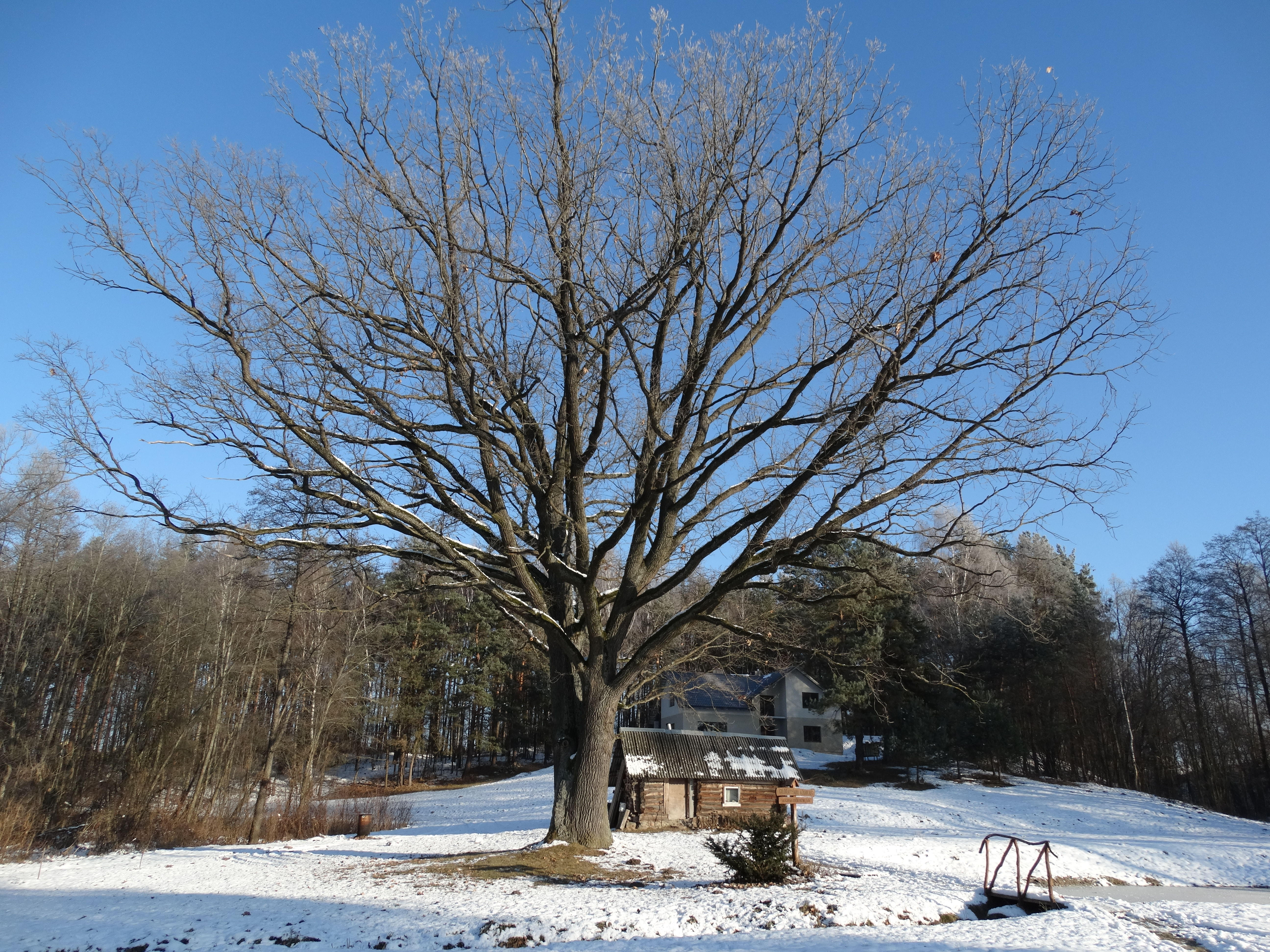 Oak tree, Giedraitiškės, Elektrėnai Municipality, Lithuania